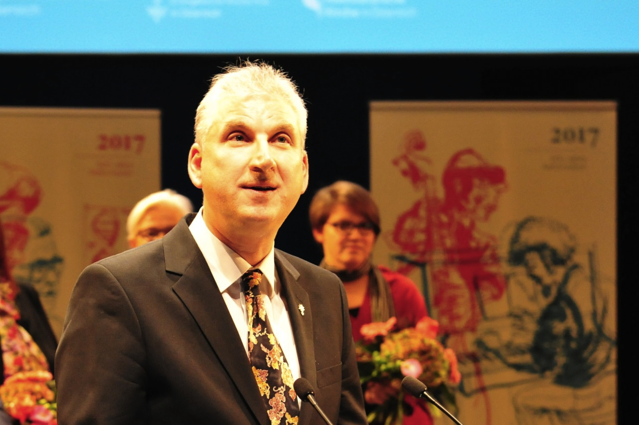 Thomas Hennefeld.